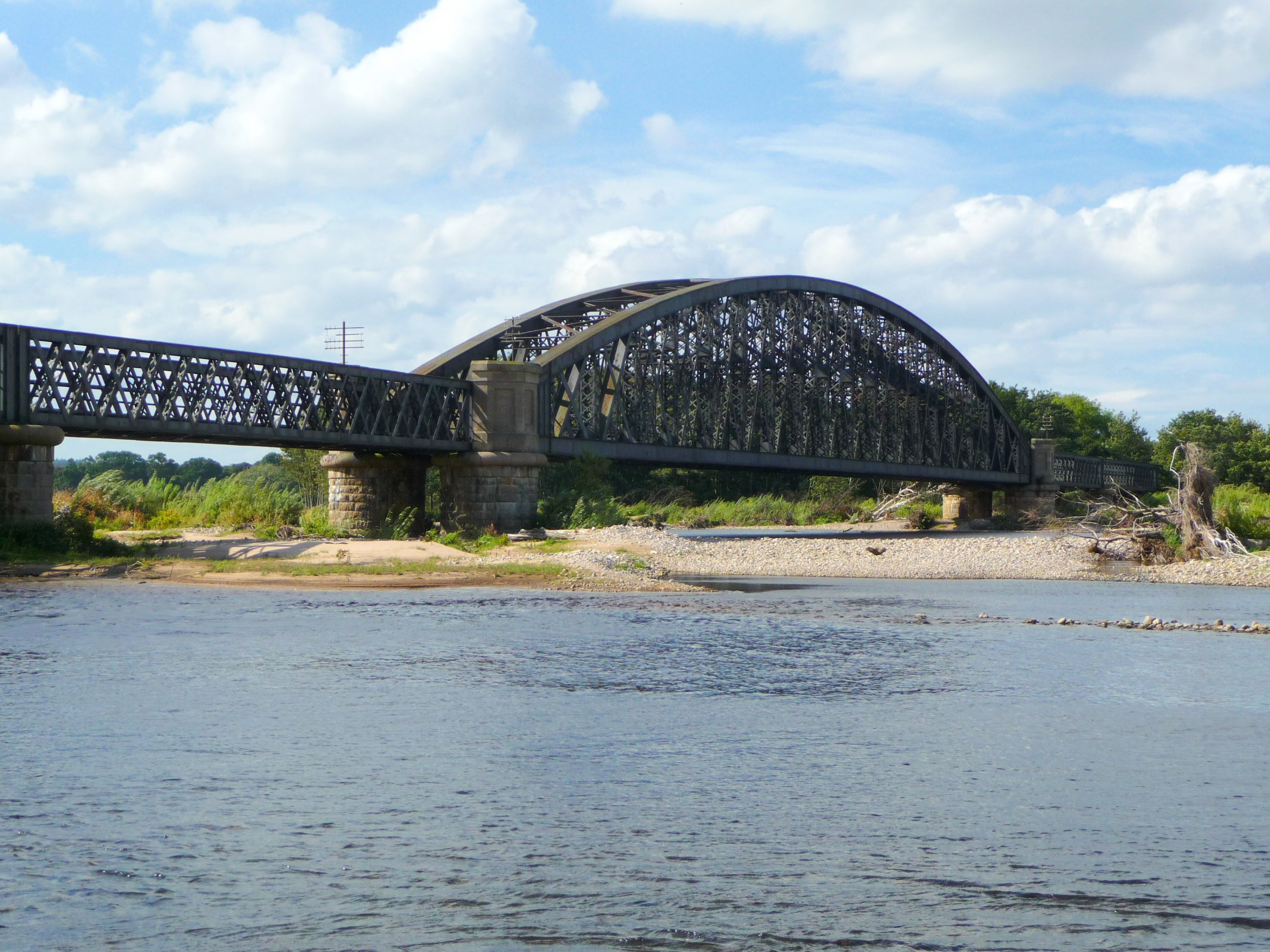 Speymouth Railway Viaduct